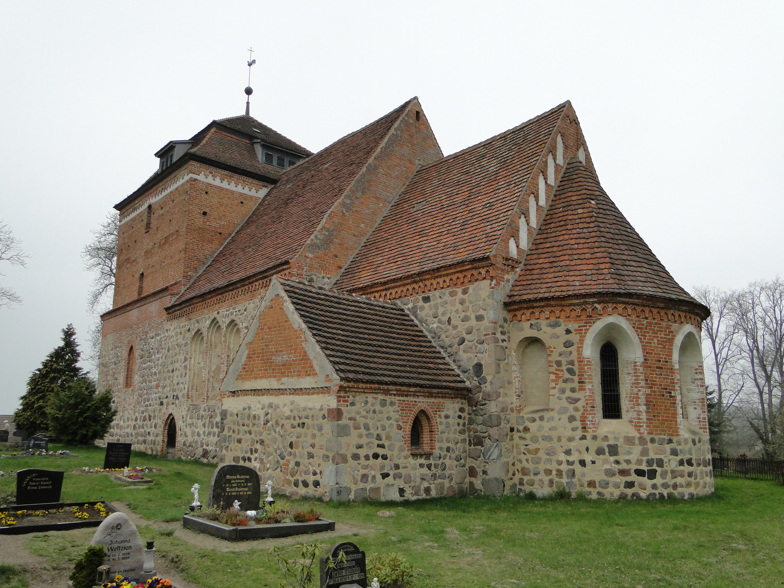 Church in Bellin, district Rostock, Mecklenburg-Vorpommern, Germany